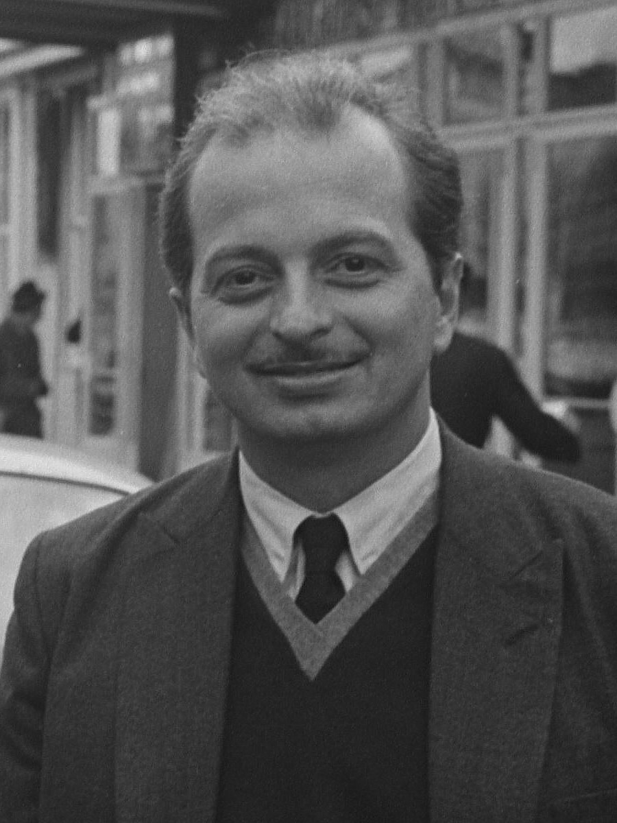 Luiz Bonfa at Schiphol Airport (the Netherlands), 16 October 1962